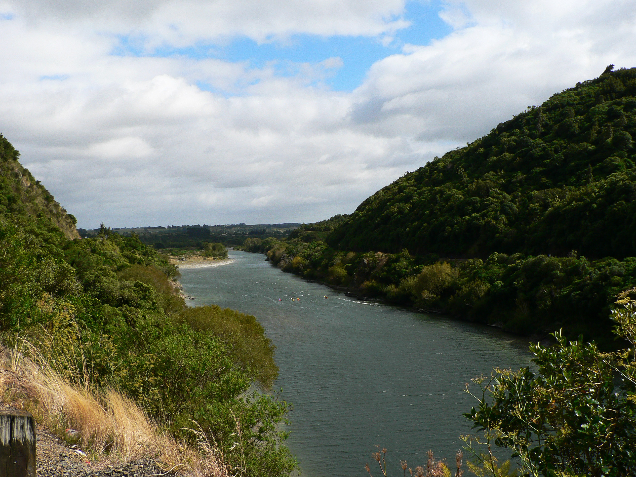 Manawatu River, New Zealand. At the very beginning of the Manawatu Gorge (the gorge is behind the photographer) looking back towards Palmerston North. Note the kayakers in the river.